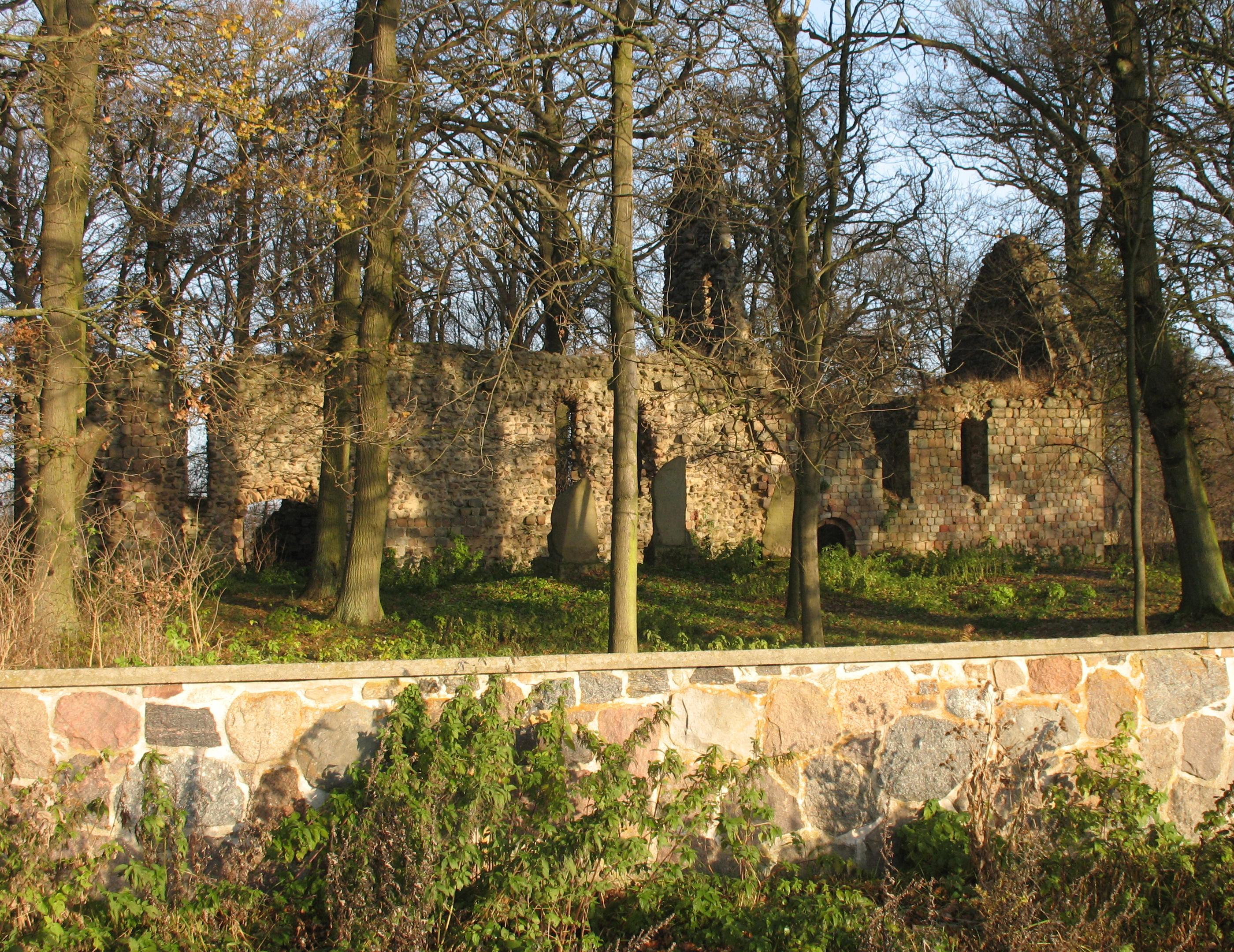 Church ruin in Bütow-Dambeck in Mecklenburg-Western Pomerania, Germany